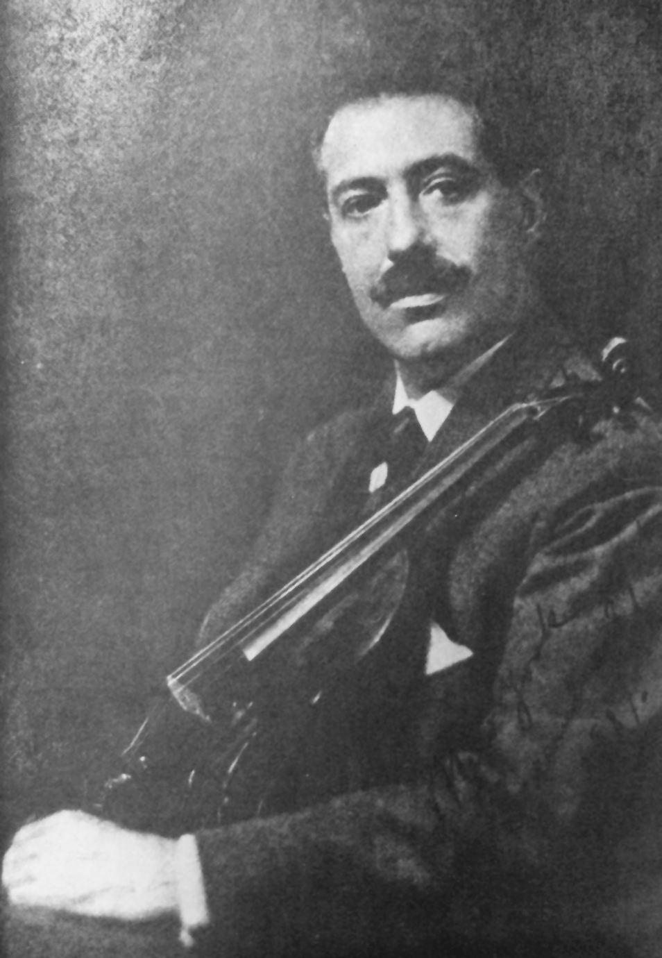 Fritz Kreisler in 1920